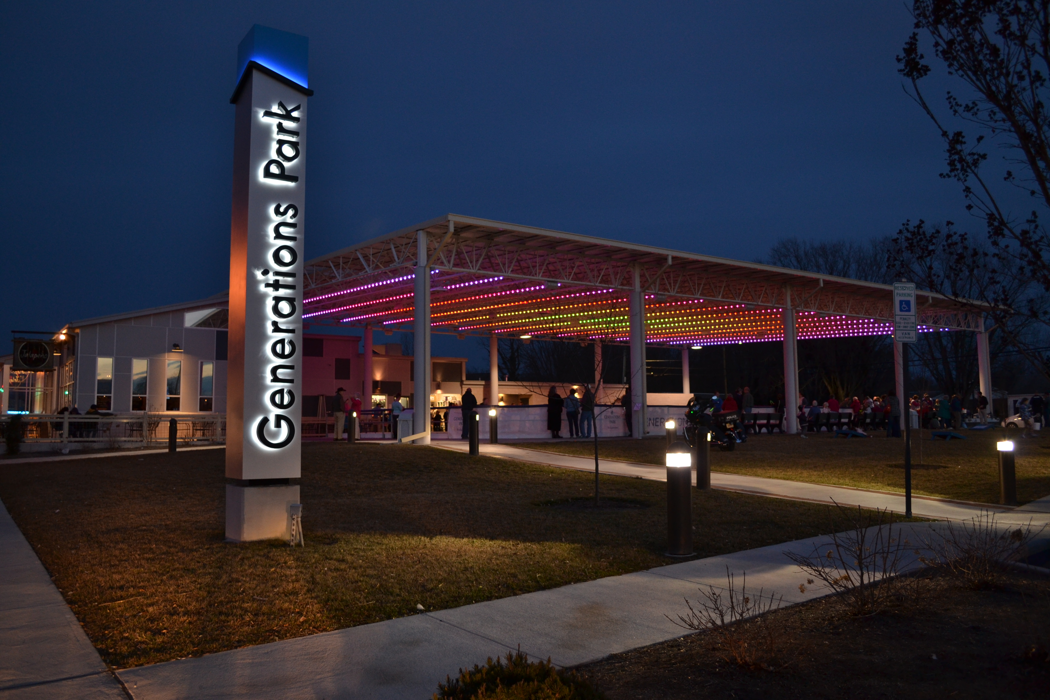 Generations Park in Bridgewater, Virginia operates an ice skating rink during the winter and a farmers' market, movies, and concerts during the spring, summer and fall.